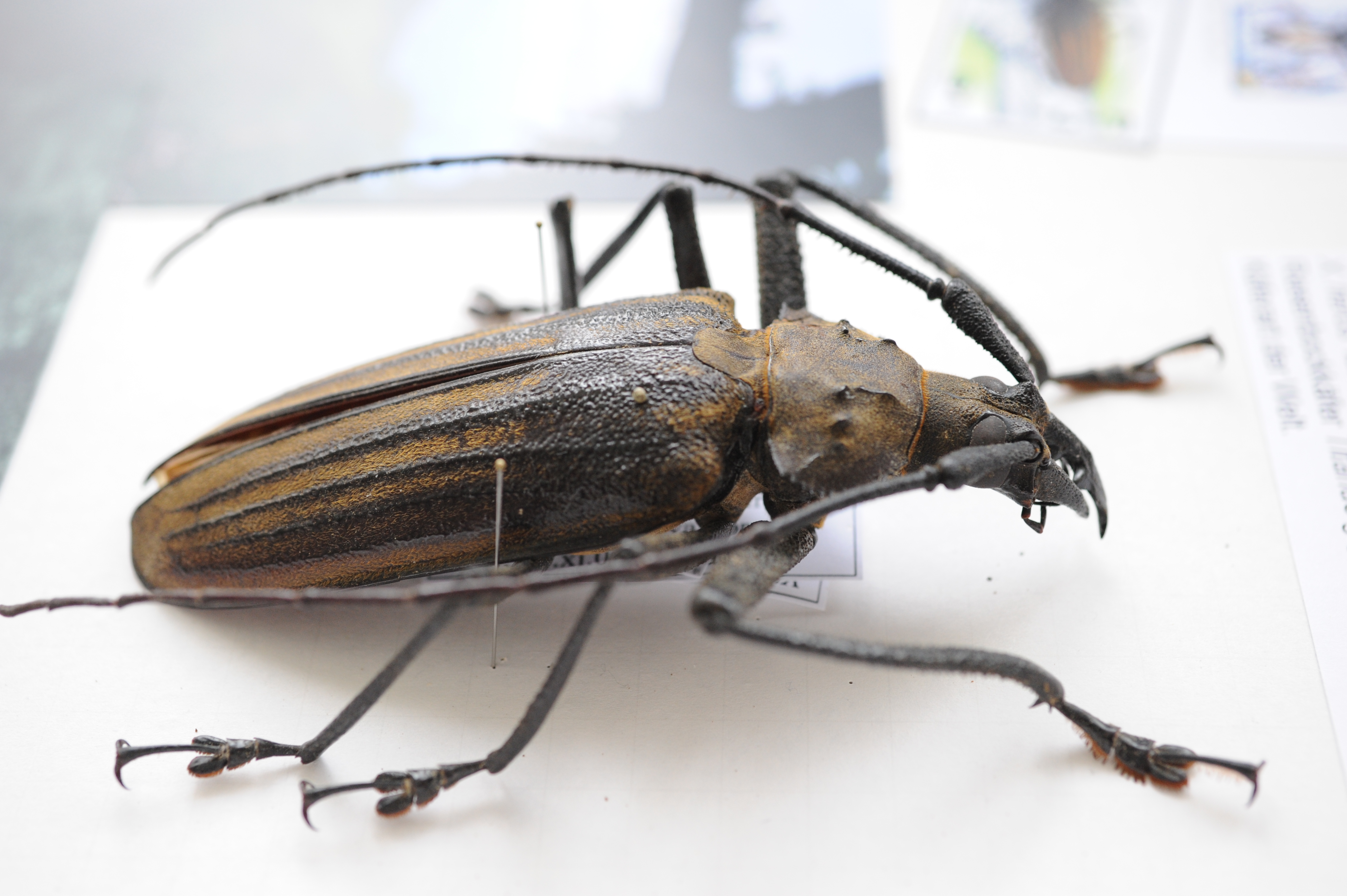 Habitus of Xixuthrus heros, the Fiji longhorn beetle, second largest species of beetle in the world.